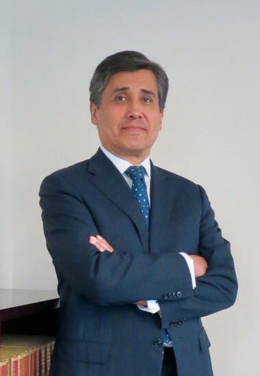 Embajador Juan José Gómez Camacho en Naciones Unidas